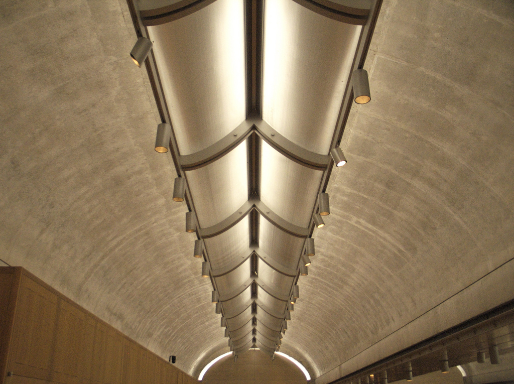 Kimbell Art Museum vault and light reflector